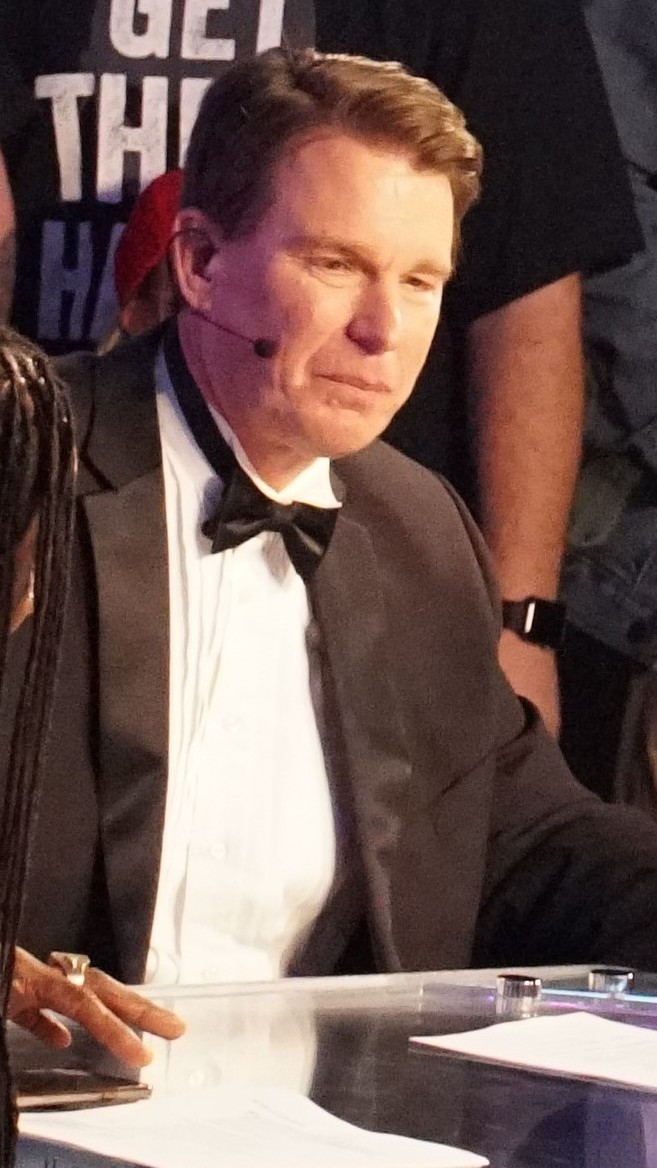 Booker T, John "Bradshaw" Layfield, and David Otunga at WrestleMania 34 in April 2018.